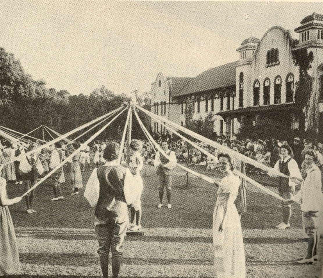 May Day Festival, 1936, in front of the original Converse Hall at Georgia State Womans College, now Valdosta State University.